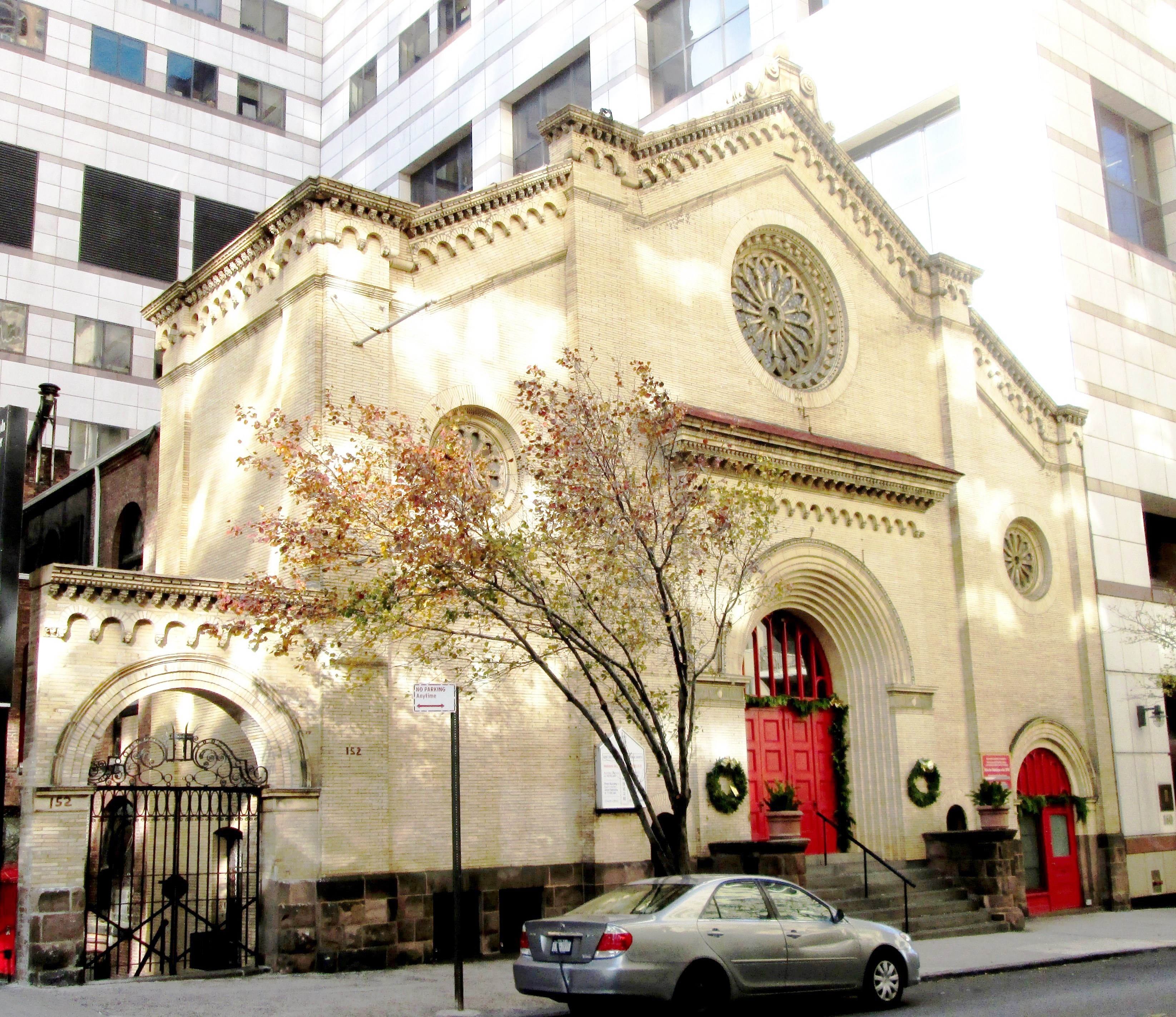 The Good Shepherd-Faith Presbyterian Church at 152 West 66th Street between Broadway and Amsterdam Avenue on the Upper West Side of Manhattan, New York City was built in 1887 and was designed by J.C. Cady & Company in the Romanesque Revival style for the Church of the Good Shepherd. It merged with the Faith Chapel of the West Presbyterian Church at 423 West 46th Street, which became St. Clement's Episcopal Church. Since the 1960s, Good Shepherd-Faith Church has been the location of many concerts, since the interior has excellent acoustics. It has also provided a location for the Korean Central Church and the Catholic apostolic Parroquia del Esiritu Santo y de Nuestra Senora de la Caridad. (Source: From Abyssianian to Zion)